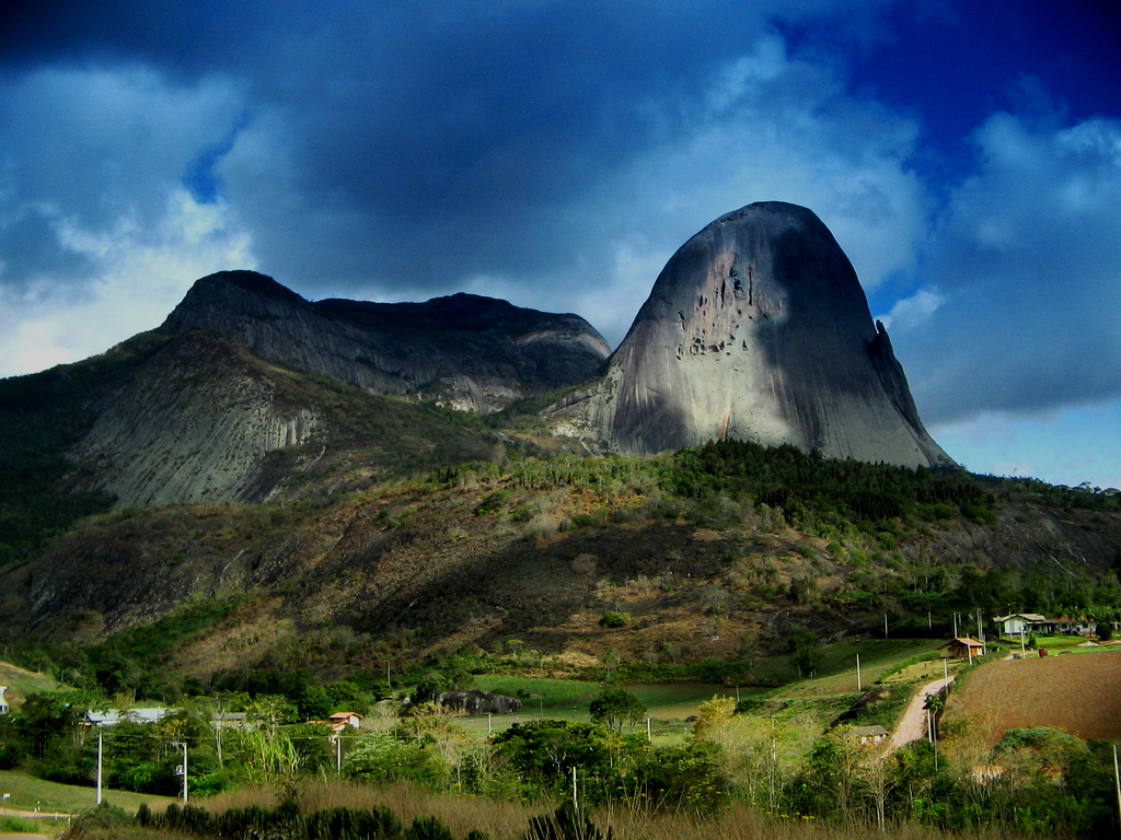 Pedra Azul (Blue Stone), Domingos Martins, Brazil.